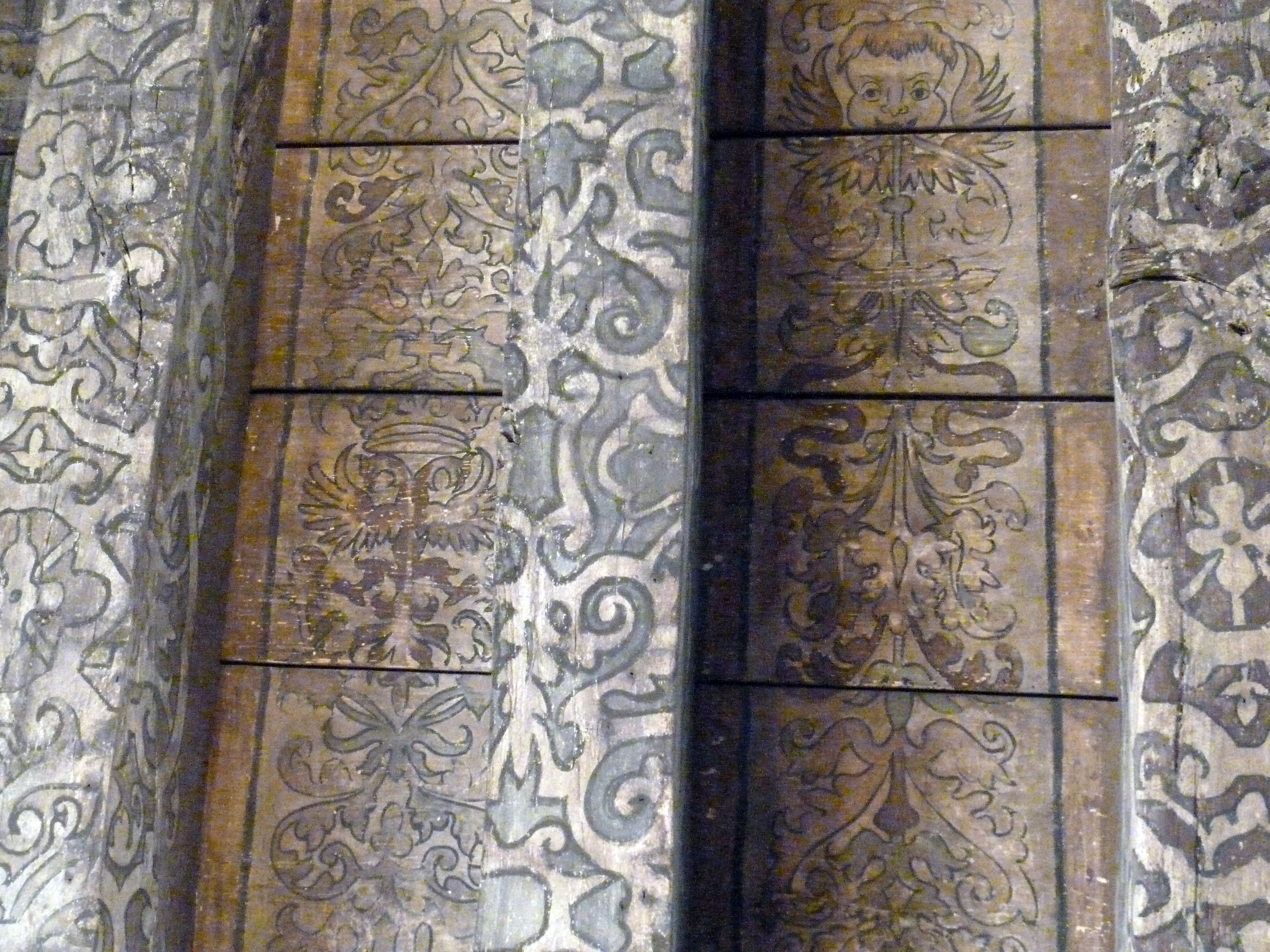 Designs include a cherub or putti blowing the wind and a two headed eagle with a crown above.